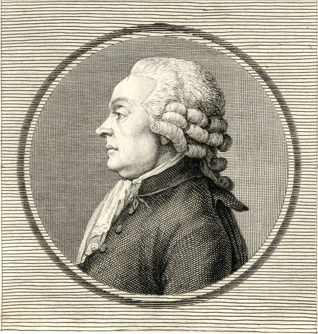 Portrait of Achille Pierre Dionis du Séjour (1734–1794), French astronomer and mathematician engraved by Courbe after Perrin (Detail).